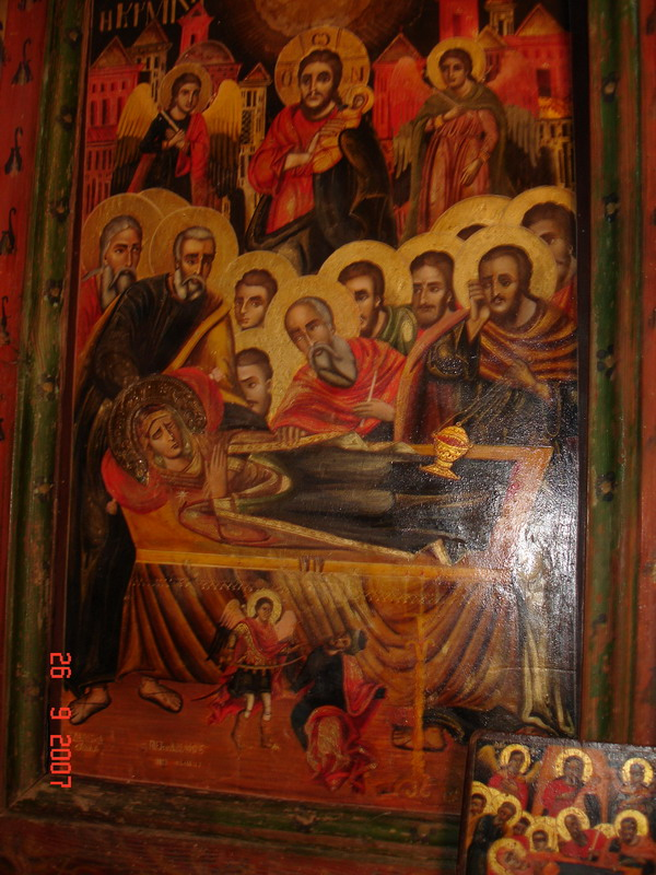 Lazarades Dormition Church Icon